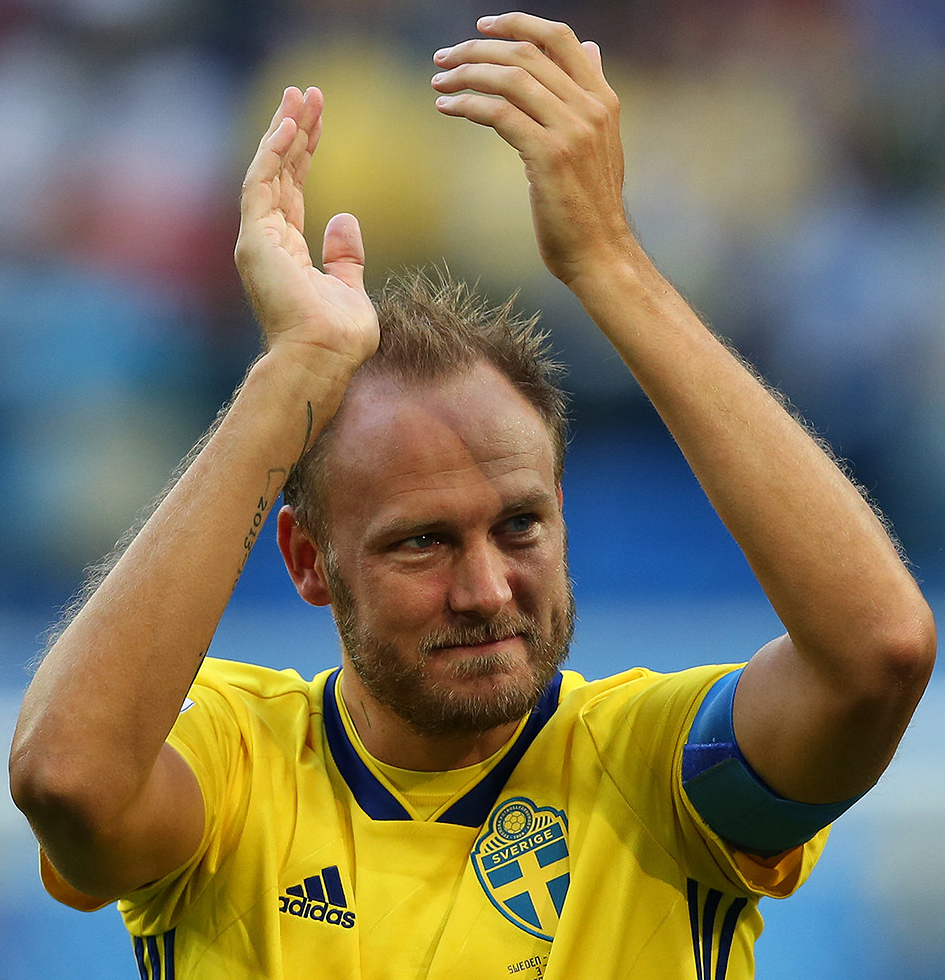 Swedish footballer Andreas Granqvist on 3 July 2018, after the 2018 FIFA World Cup Round of 16 match between Sweden and Switzerland.